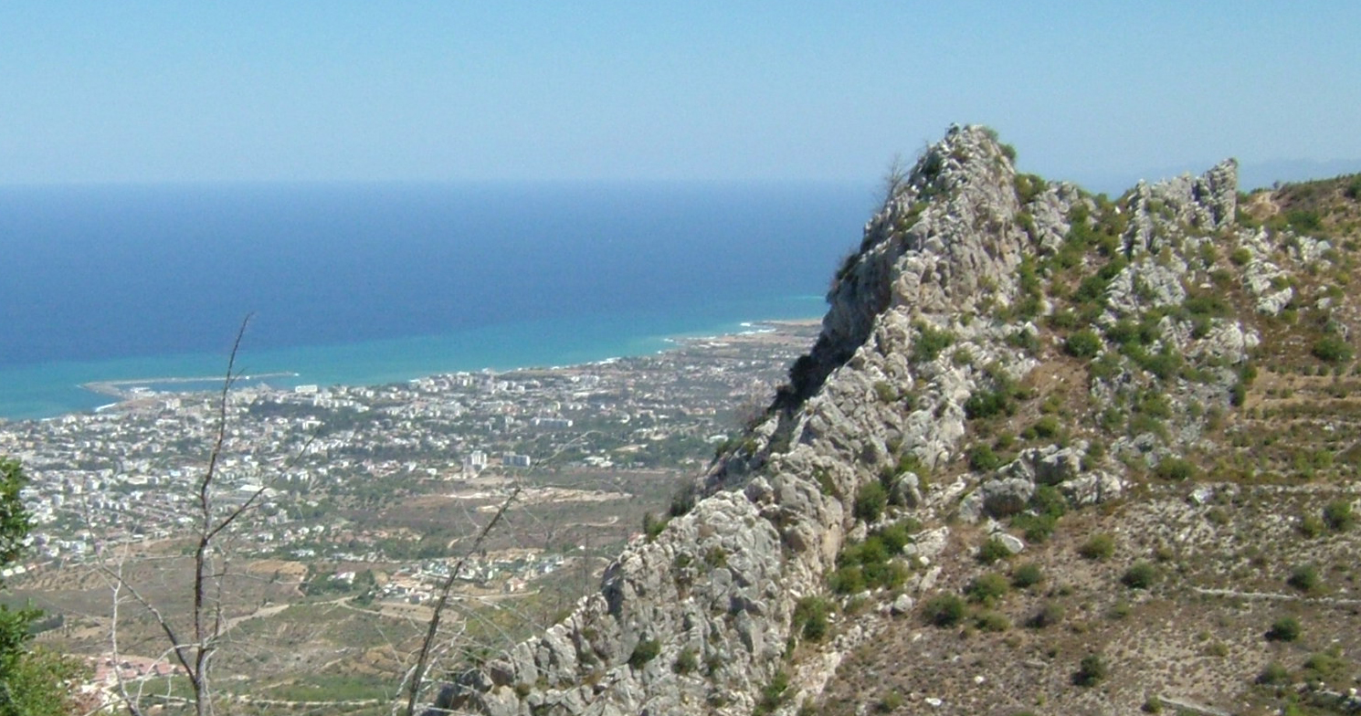 View of Kyrenia from St Hilarion